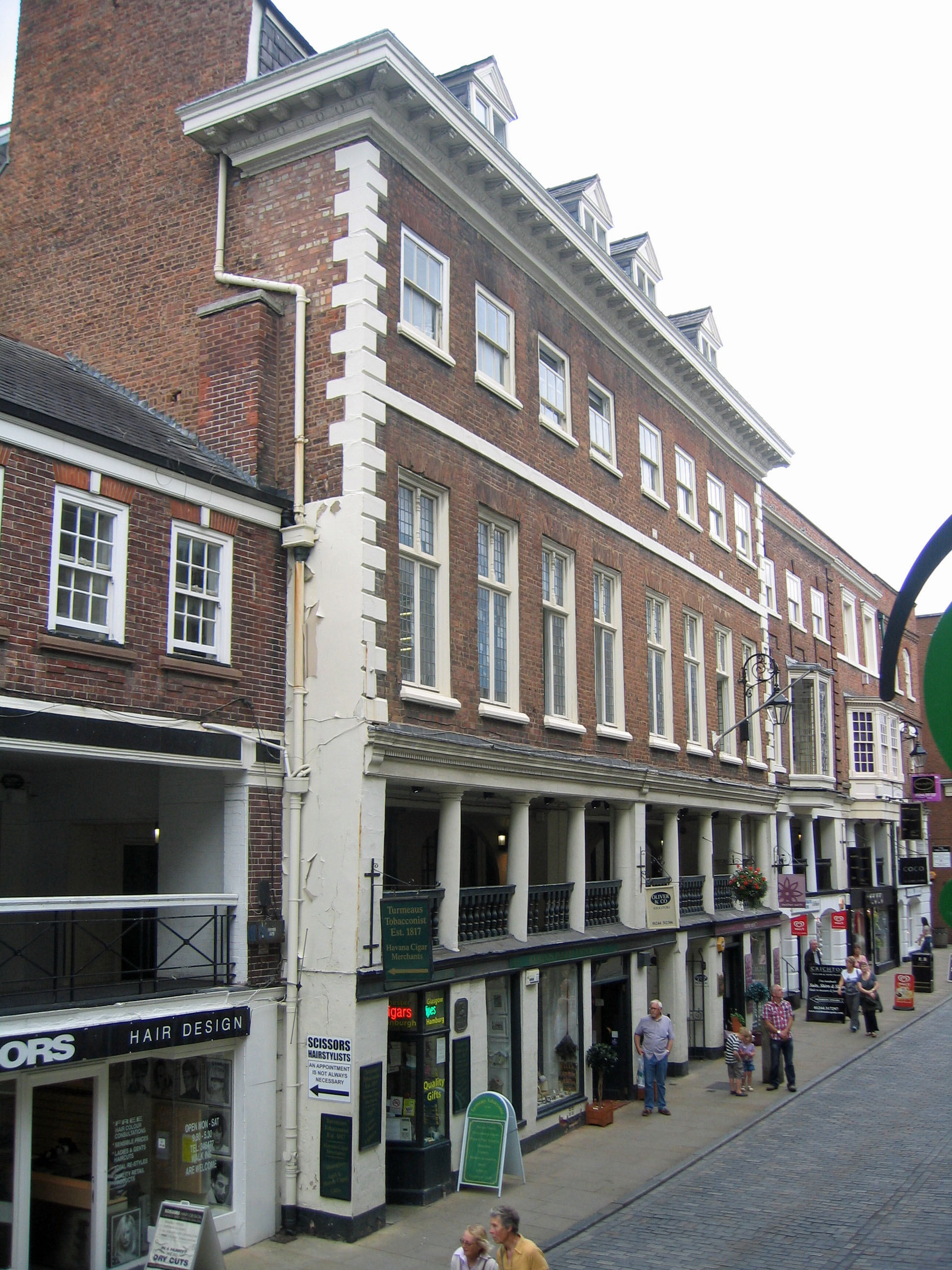 Photograph of Booth Mansion, Watergate Street, Chester, Cheshire, England